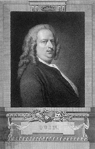 Engraving of James Quin (24 February 1693 – 21 January 1766)